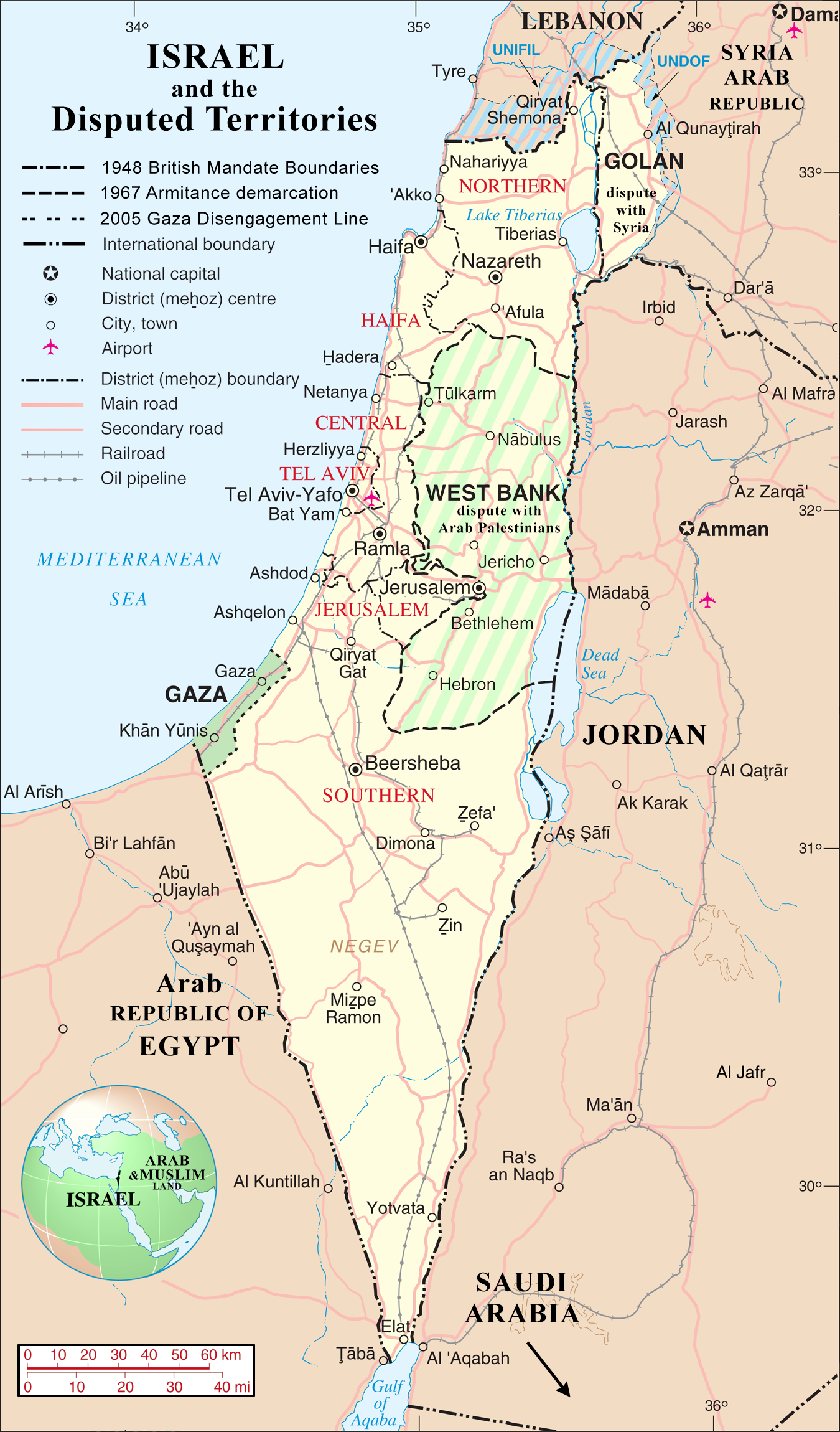 Map of Israel, Palestinian Controlled Territories of (Gaza and the West Bank), the Golan Heights, and neighbouring countries. Also United Nations deployment, as of January 2004, in the area.